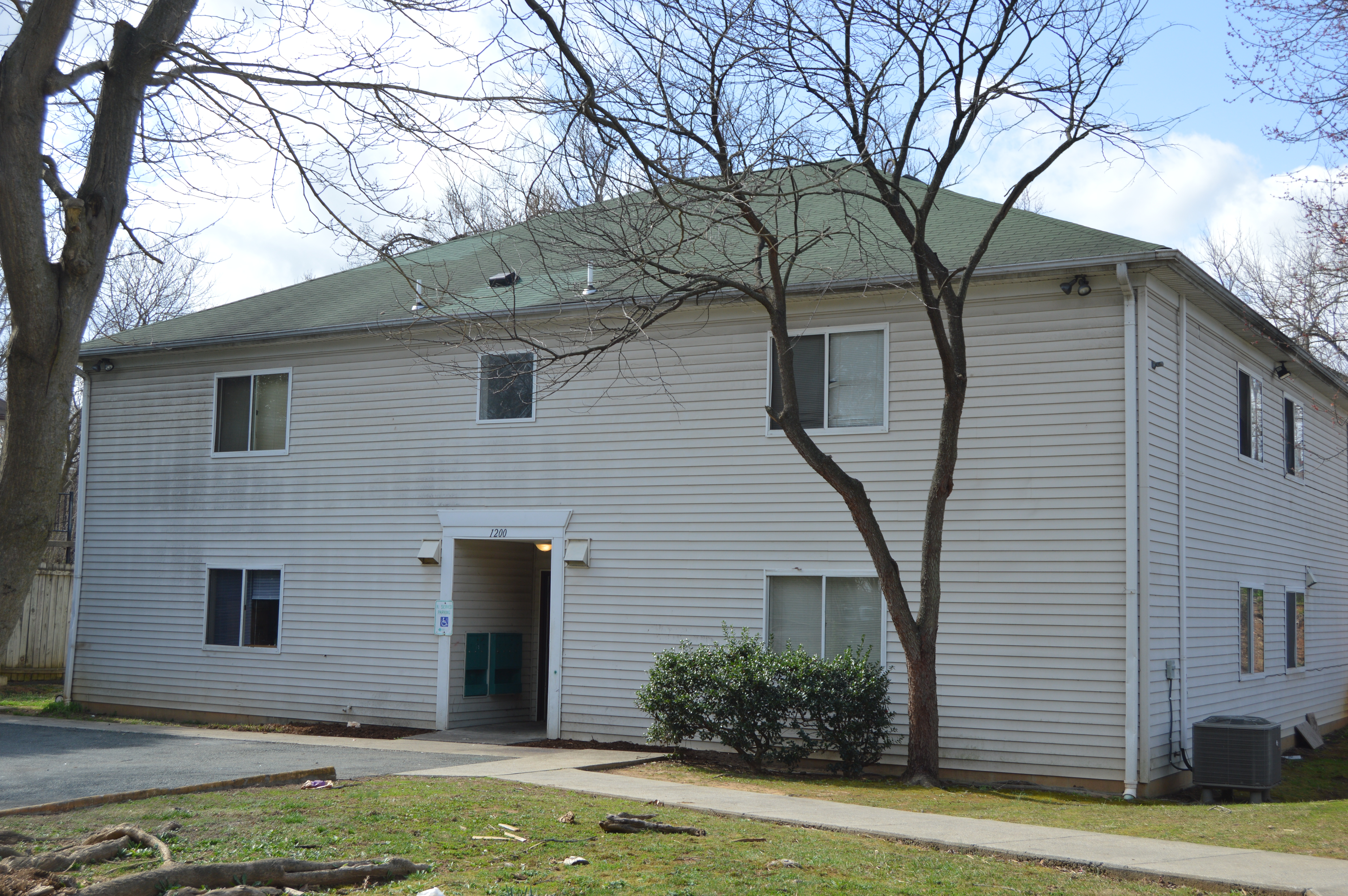 Front of an apartment building located at 1200 Carlton Avenue in Charlottesville, Virginia, United States. This was formerly the site of the Ficklin-Crawford Cottage, which was listed on the National Register of Historic Places in 1982; although no longer standing, the cottage officially remains on the Register.